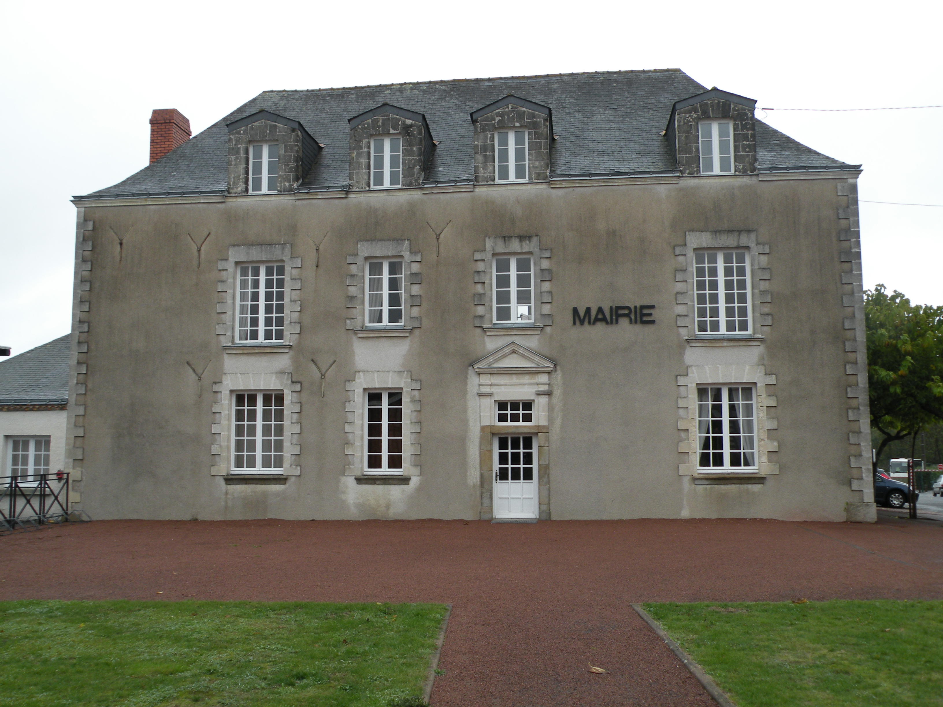 Town hall of Montbert.